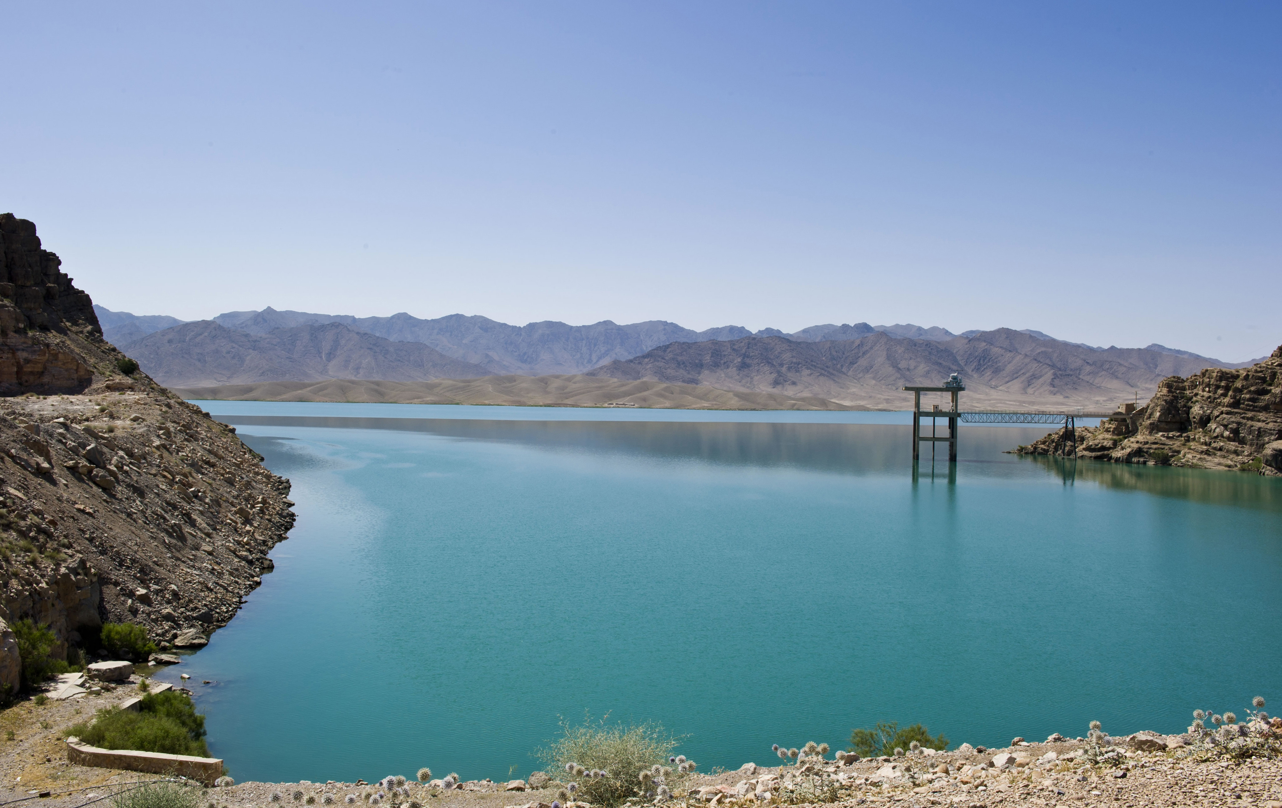 Kajaki irrigation intake structure and reservoir in Helmand Province, Afghanistan.